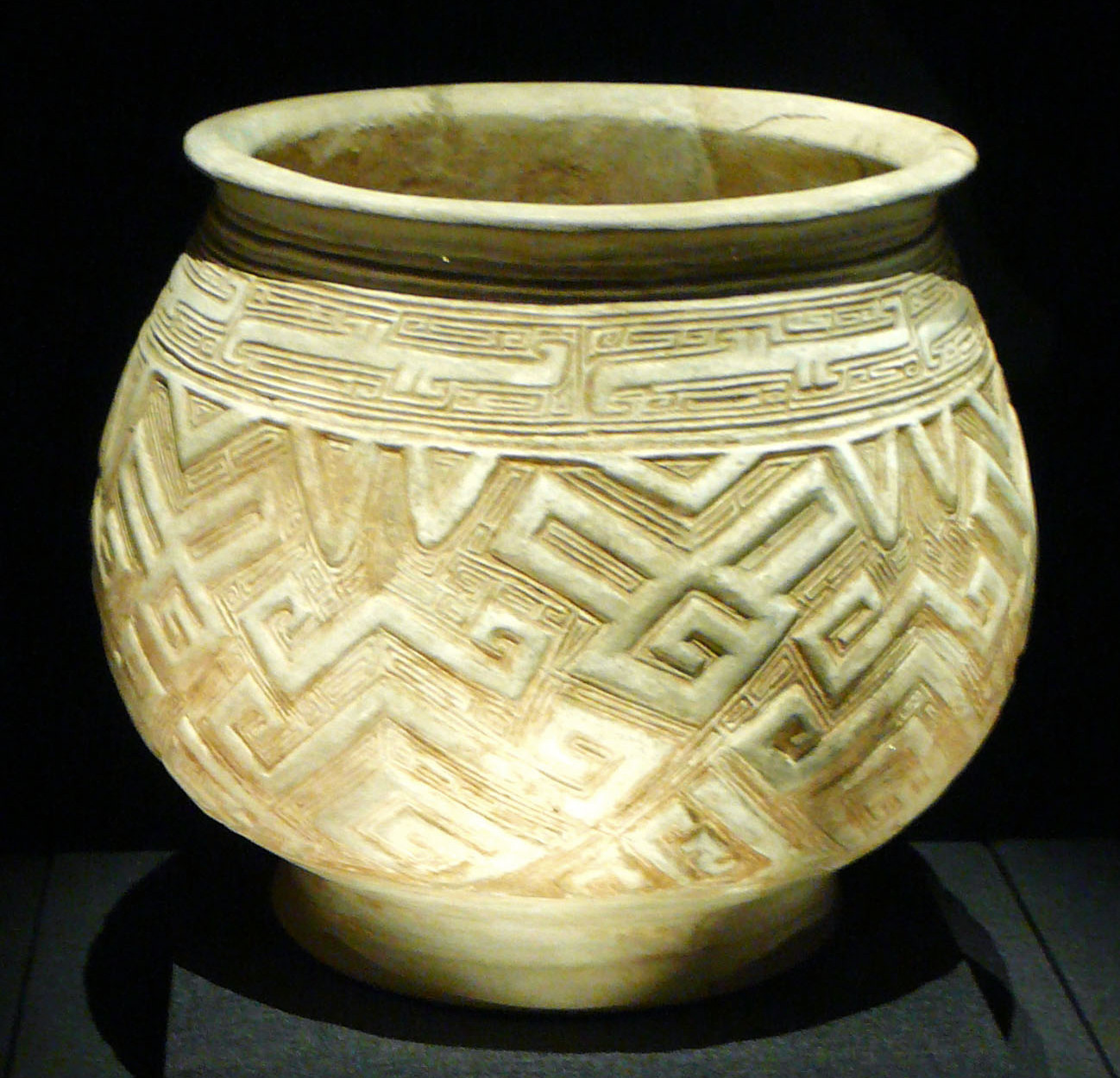 Collection of Palace Museum, Beijing. White pottery "Bu" with carved geometric pattern. Shang Dynasty, 1600-1100 B.C. Nota: White pottey with carved patterns, which appeared in the late Shang peroid, were made with a low content of ferric oxide (Fe2O3) and fired at temperature about 1000C. Mainly found in Shang dynasty tombs at Anyang, Henan, white pottery was exclusively used by the royal family, and very few pieces survived. The popularity of white pottery in Shang dynasty was closely related to the people's preference for white among all colors. In Shang dynasty, apart from white pottery, there are also pots of gray, red and black with imprinted patterns. The major utensils for every people are gray pottery, which has the largest production and is most abundant in archaeological sites.